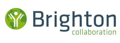 Service Mark of the Brighton Collaboration Foundation, from its filing with the United States Patent and Trademark Office. A corporation in Basel, Switzerland, the Brighton Collaboration Foundation provides research and development in the field of vaccine safety. The mark consists of a y-shaped white figure with two additional oblong shaped arms that represent an antigen, and a round head in the middle of a round light green globe with dark green continents. Next to the globe is the word "Brighton" in dark gray, and underneath that is the word "collaboration" in green. All of the elements are on a white background.